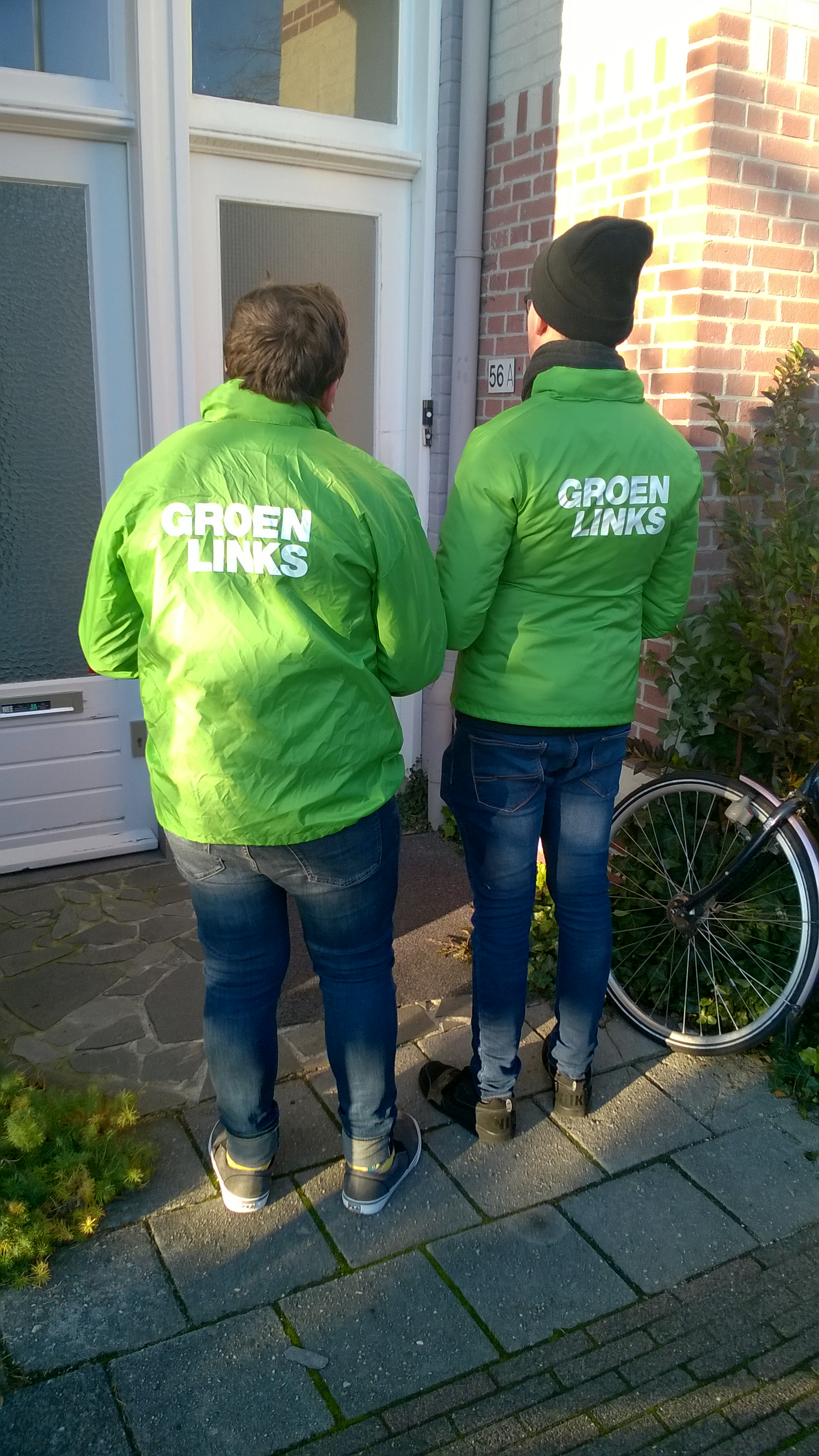 Members of the political party GreenLeft going from door-to-door to encourage people to vote during the municipal elections in the city of Groningen.